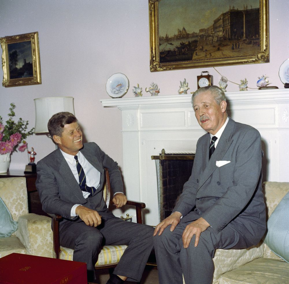 President John F. Kennedy meets with Prime Minister of Great Britain Harold Macmillan (right) inside Government House in Hamilton, Bermuda.